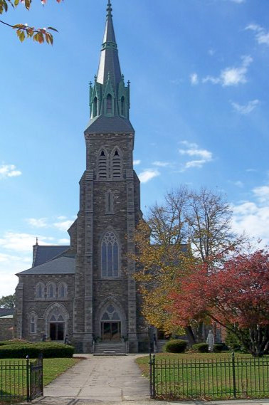 Photograph of St. Patrick's Church in Lowell, Massachusetts